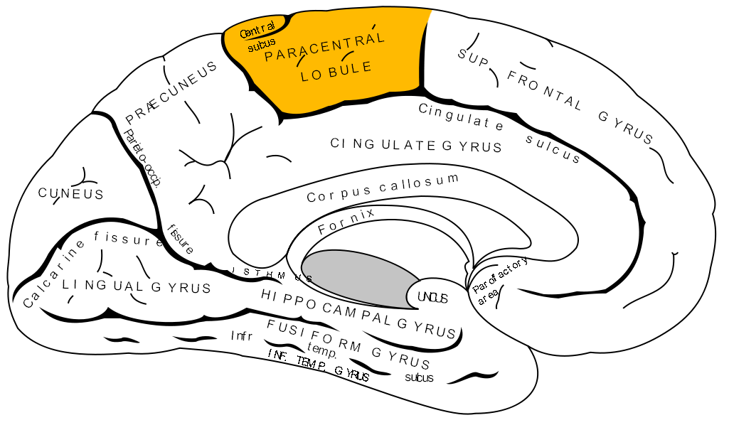 paracentral gyrus. paracentral lobule.